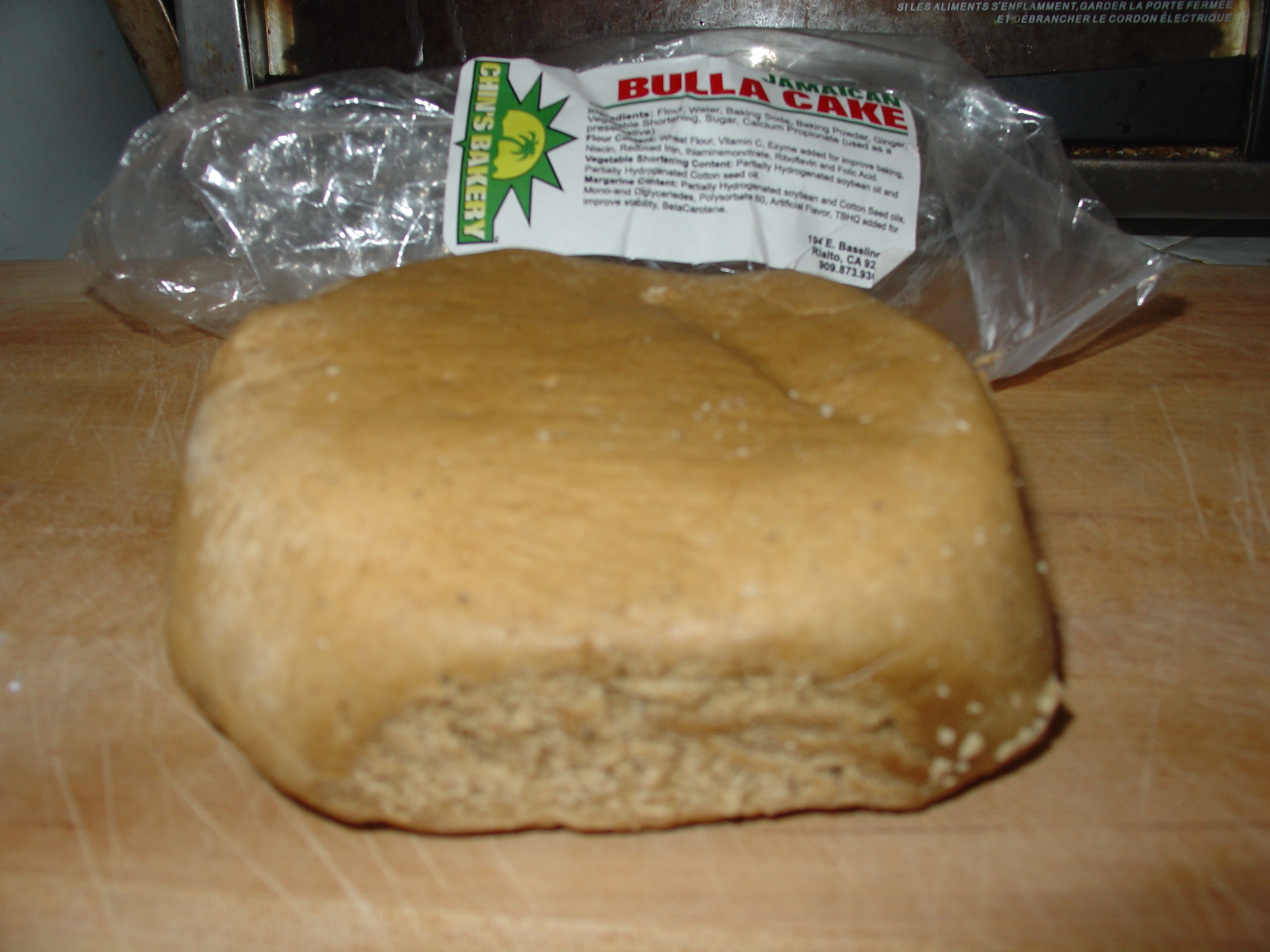 Jamaican bulla cake from Chin's Bakery in Los Angeles.